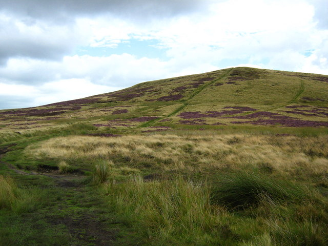 Path up to Lost Lad hill On the Derbyshire/South Yorkshire border.